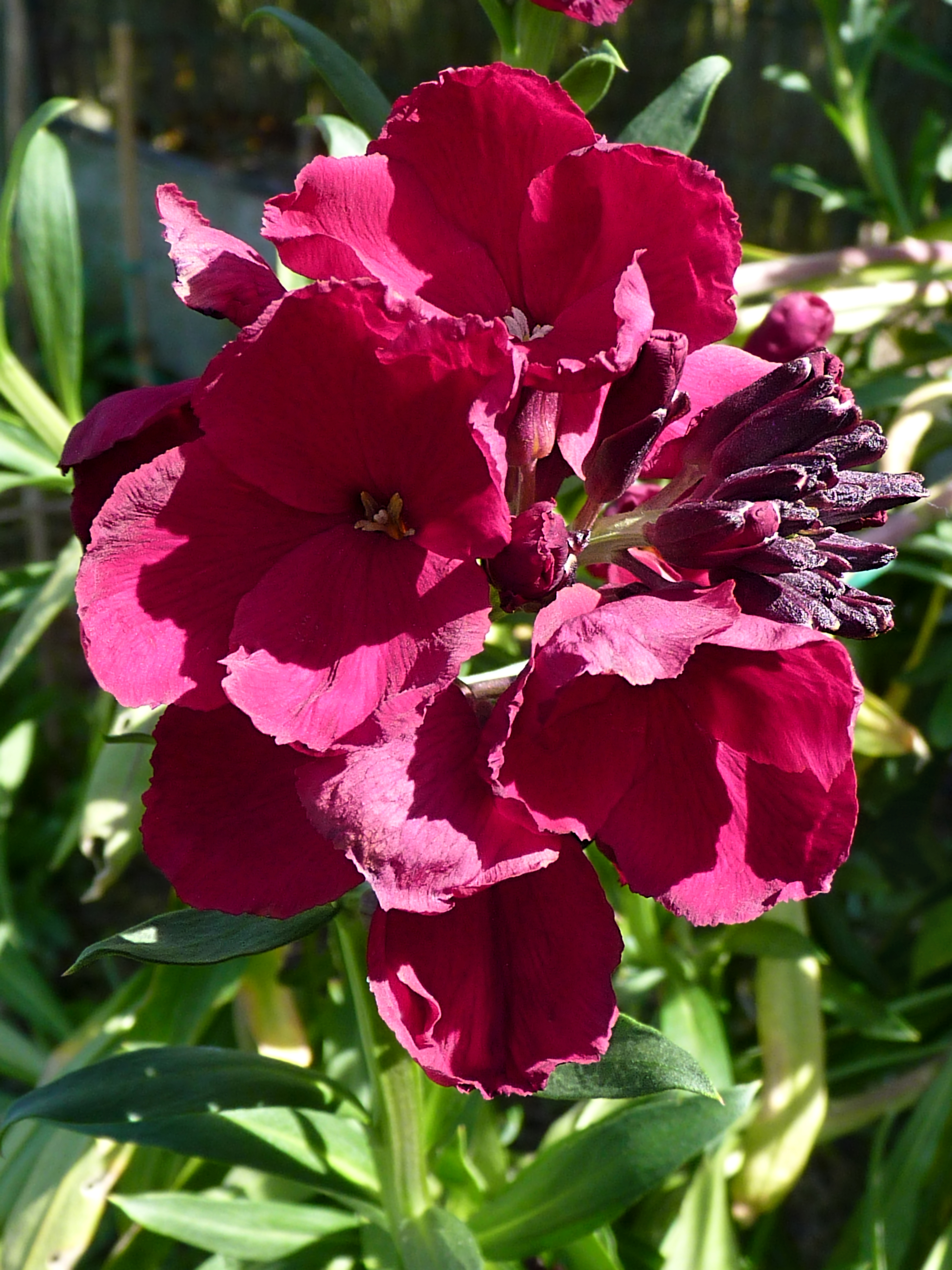 Cheiranthus cheiri 'Covent garden', picture taken in a garden in Belgium.